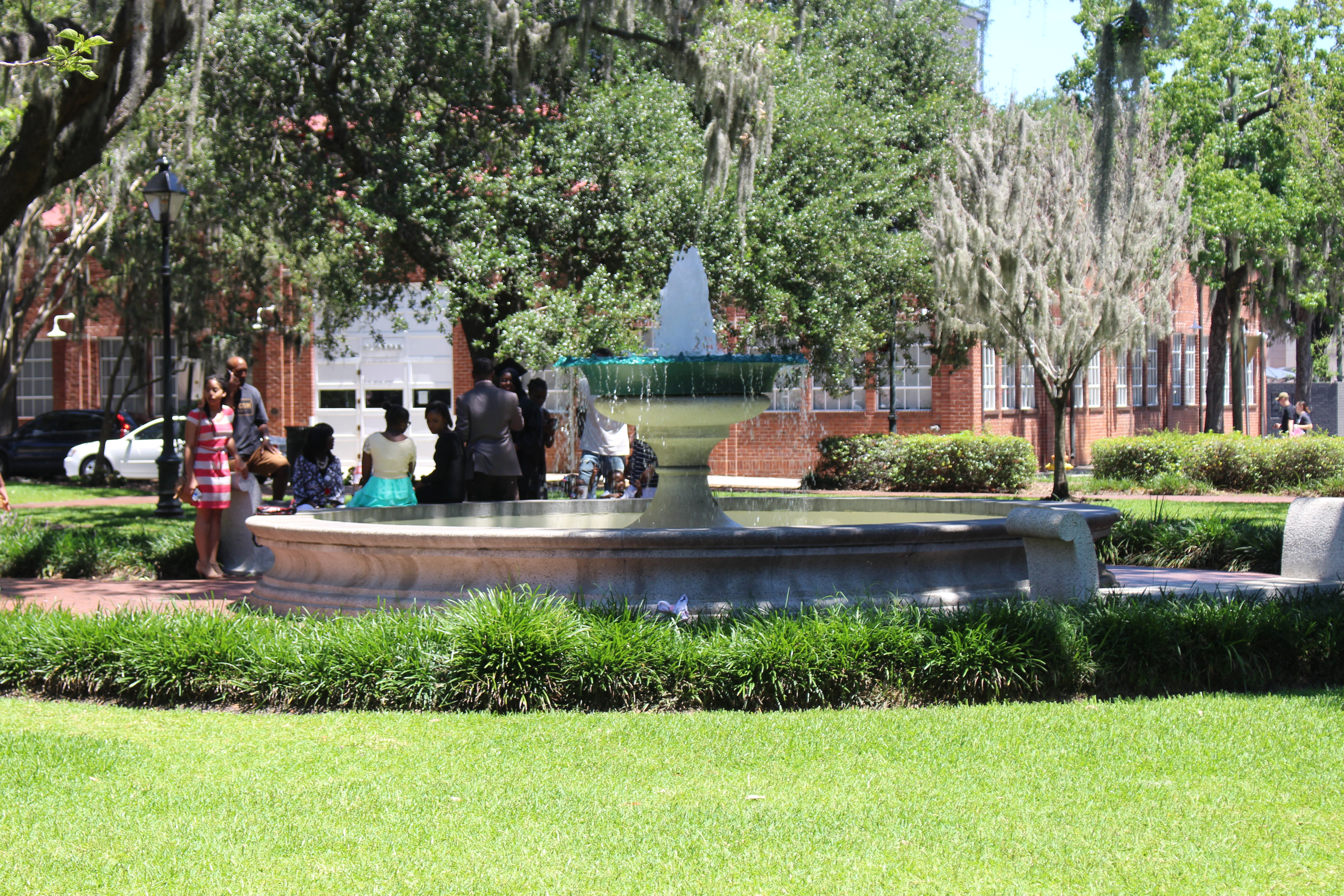 Savannah, Chatham County, Georgia